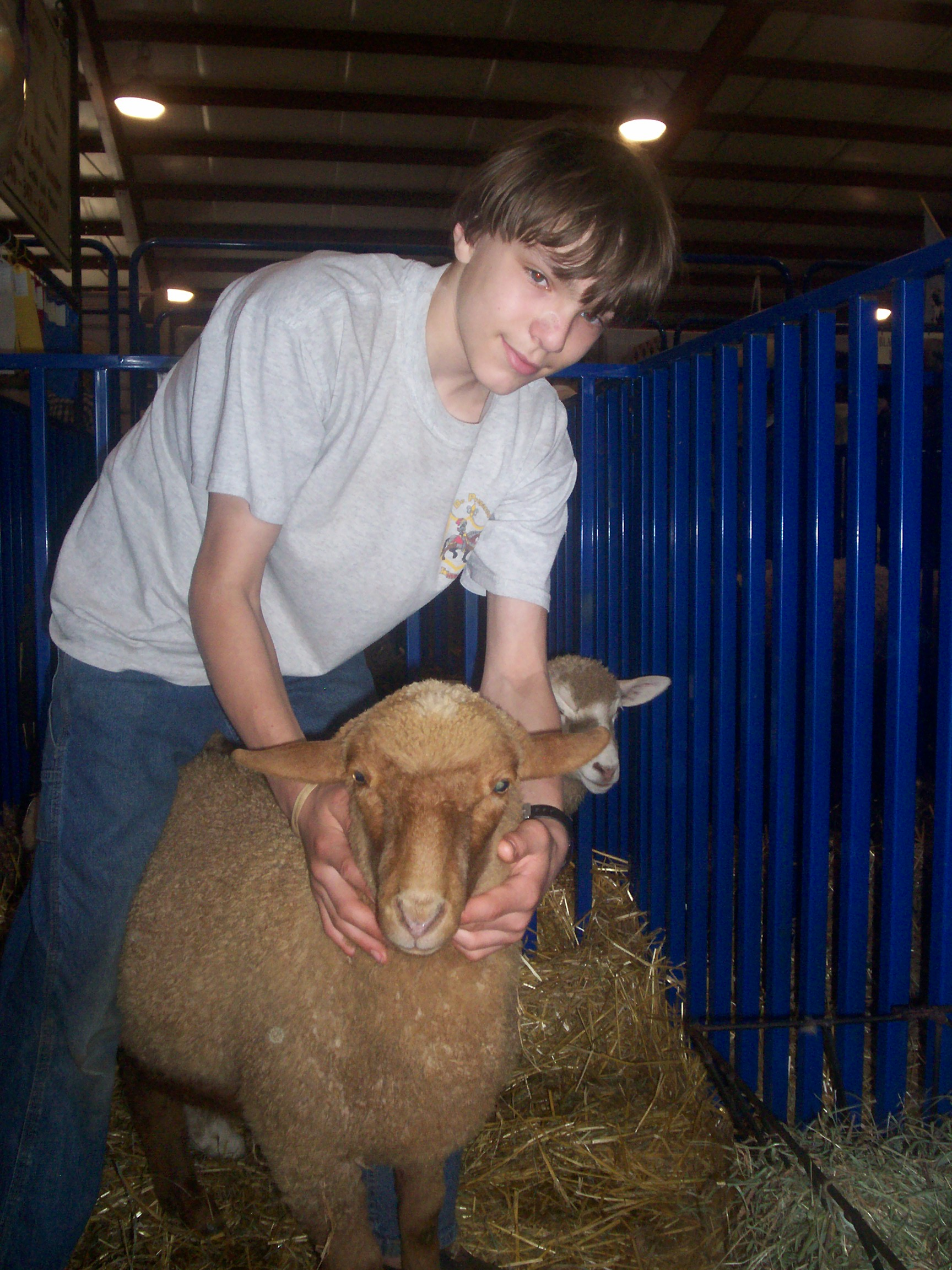 Garrison Kunst and Luke, the Tunis sheep at the 2008 Maryland Sheep and Wool Festival in West Friendship, Maryland. Garrison and Luke are from the Twin Ponds Fiber Farm. Source: User:Richard Arthur Norton (1958- )